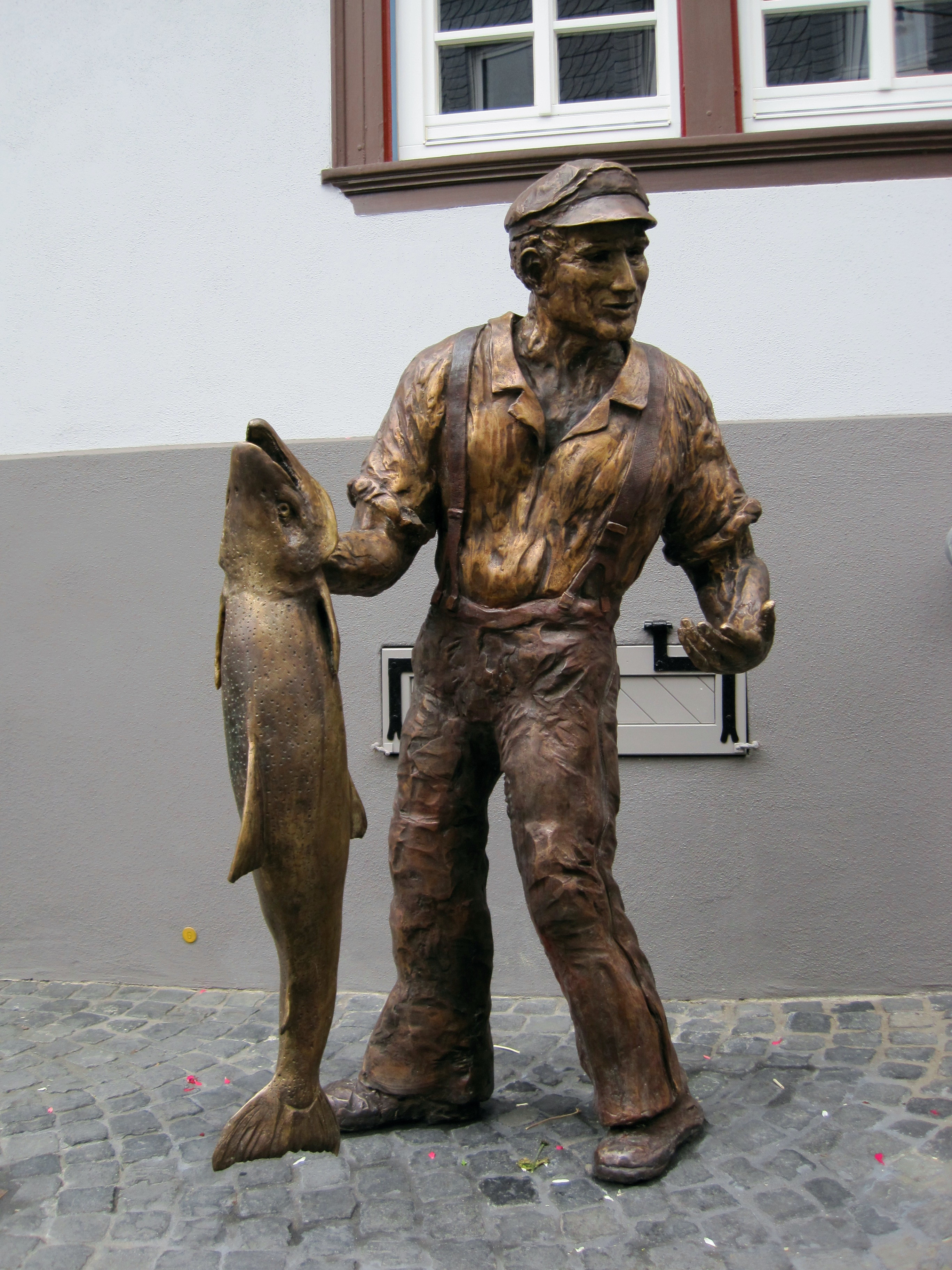 Sculpture "Ernst der Salmfischer" (Earnest the salmon fisherman) by the artist Jutta Reiss, 2012. St. Goarshausen, Rhineland-Palatinate, Germany